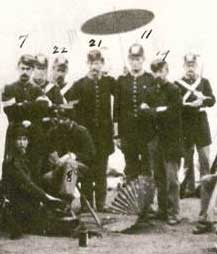 Gillett (marked by "11") while serving in the Eureka Guards, stationed in Santa Cruz in August, 1885. Courtesy of California State Military Museum at